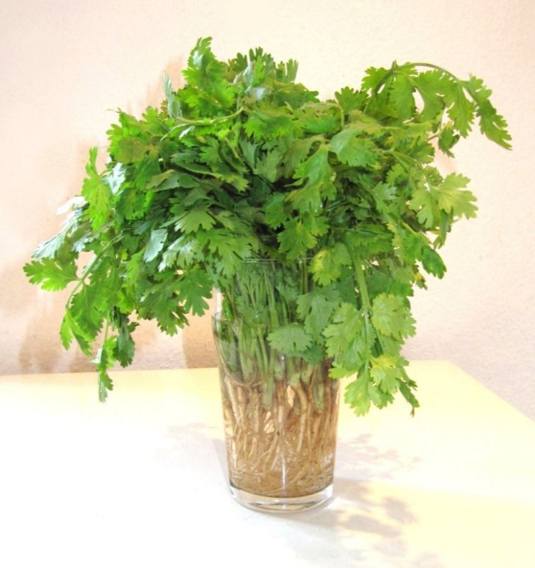 Fresh Cilantro (Coriander)